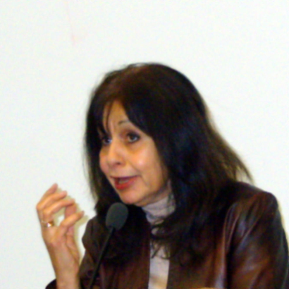 photo of Dr. Ghada Karmi taken with her permission during a lecture in Manchester University, UK. Feb 2008